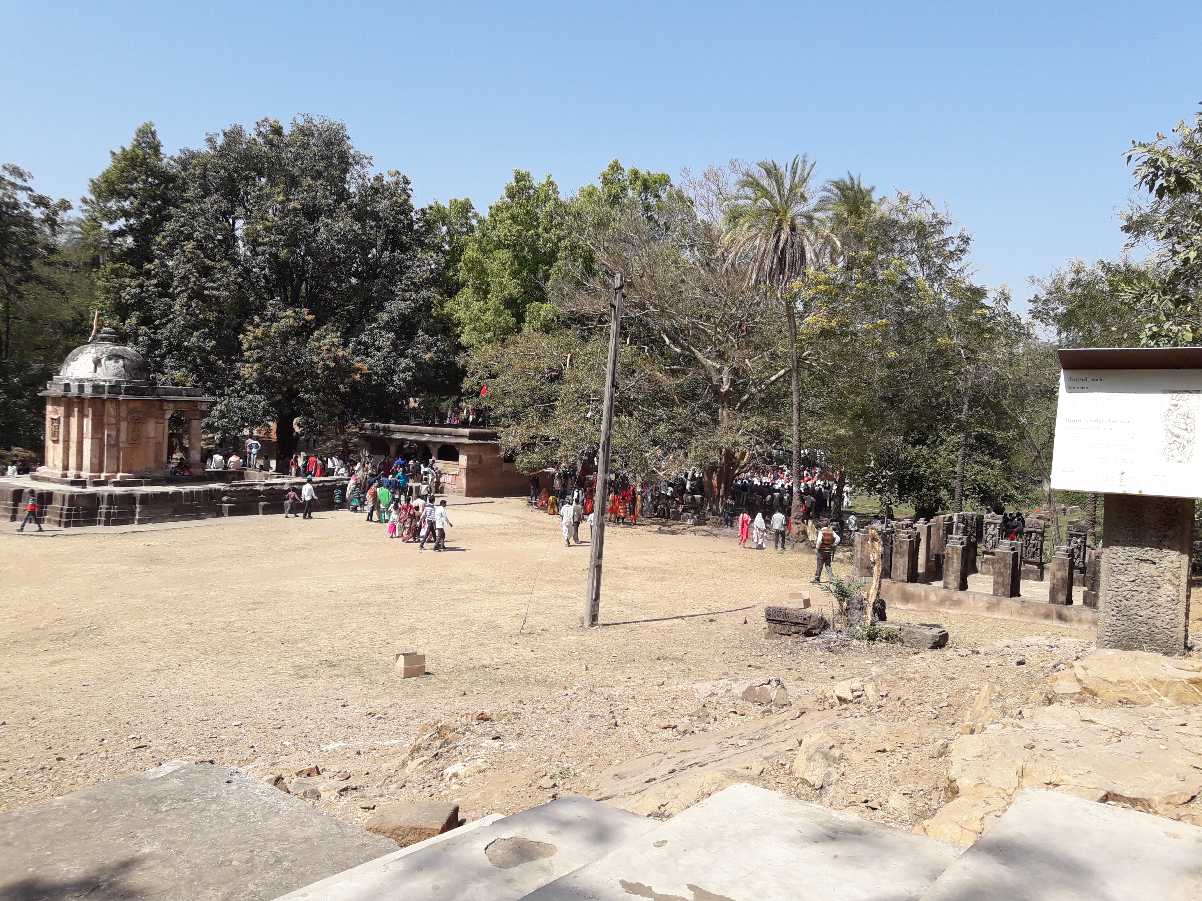 Kaleshwari Art Fair, held anuualy on Mahashivratri at Lunawada of Mahisagar district, Gujarat, India.